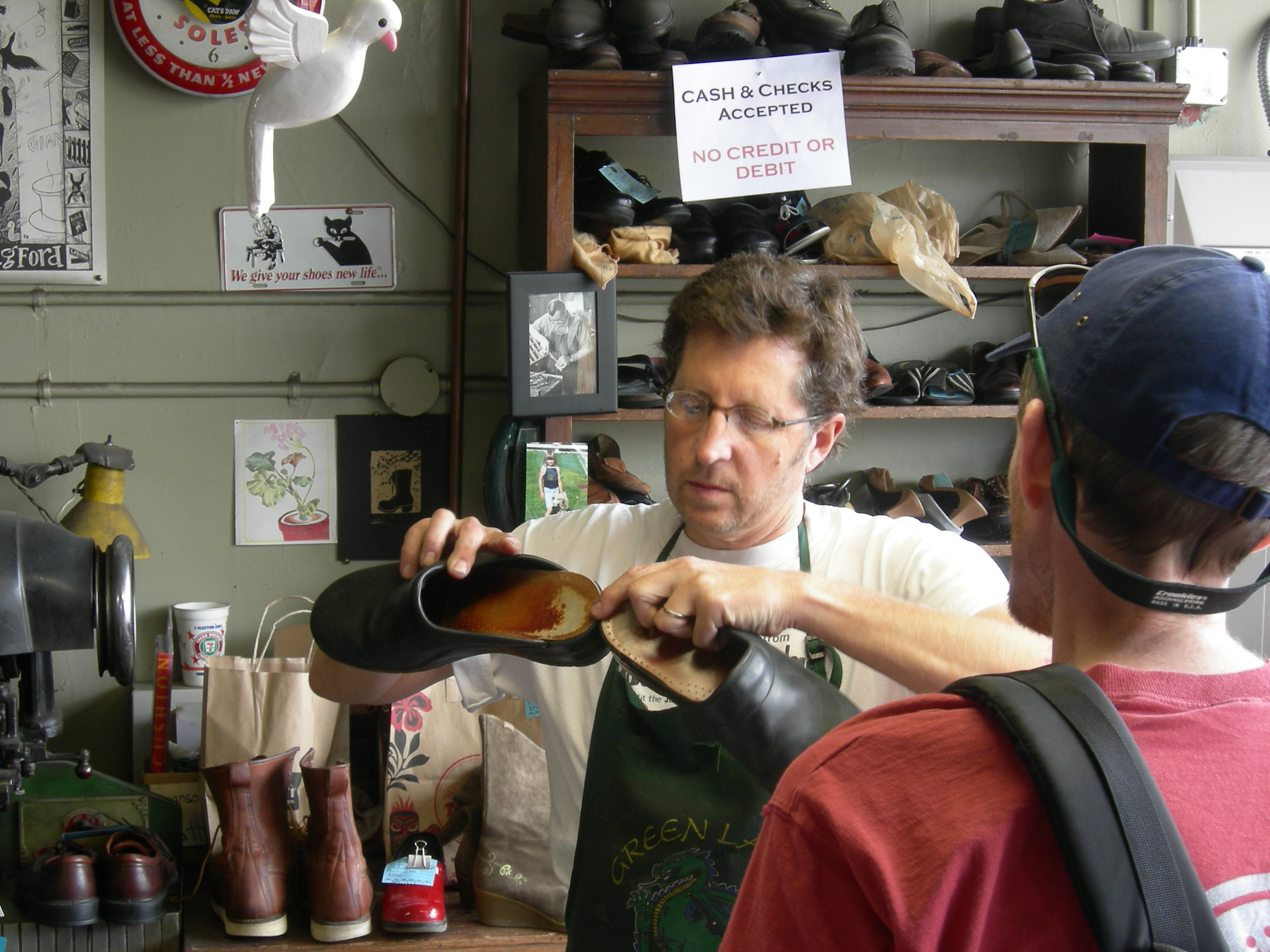 Swanson Shoe Repair (founded 1928), Wallingford neighborhood, Seattle, Washington.